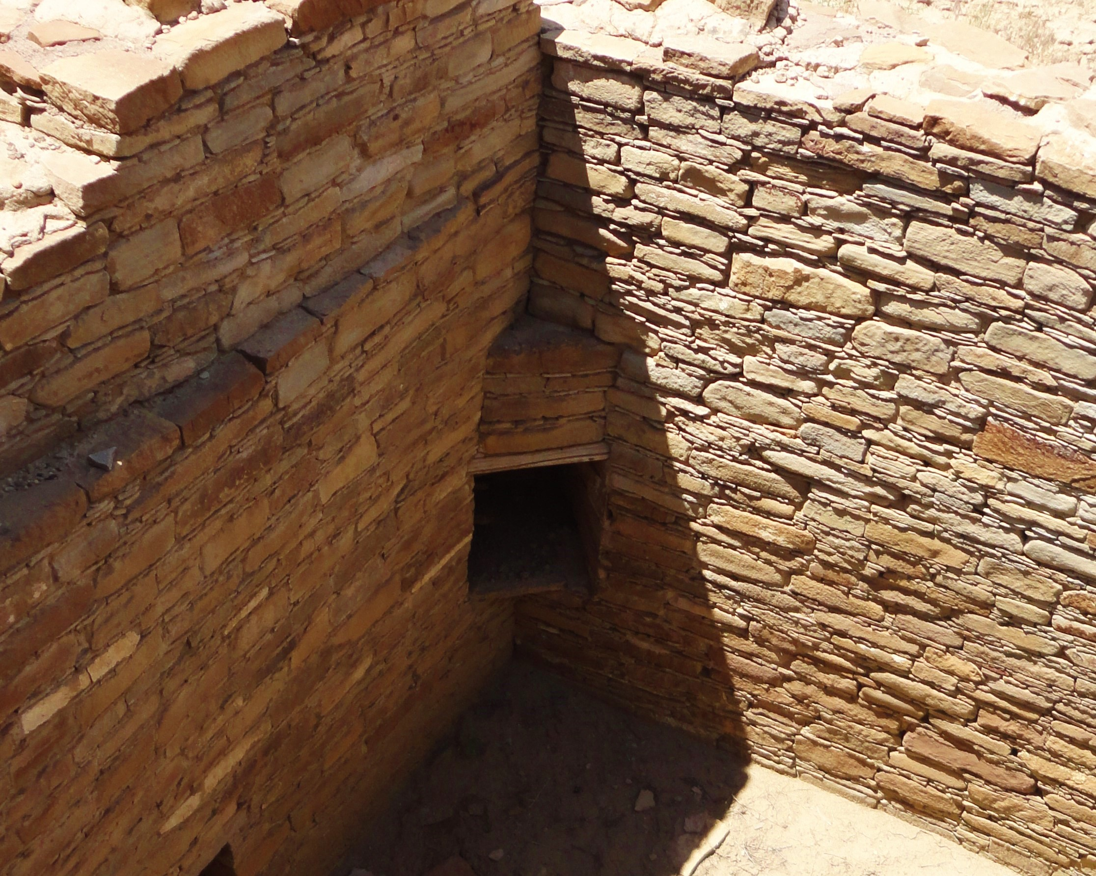 One of the corner doorways at the Ancestral Puebloan great house, Chetro Ketl, in Chaco Culture National Historical Park, New Mexico